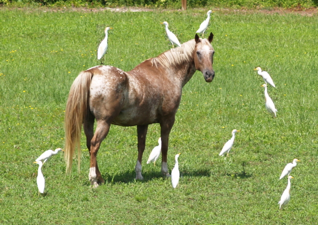 Our Appaloosa with her feathered friends. These birds actually help our horse by eating insects that would otherwise cause her discomfort. Hop on!